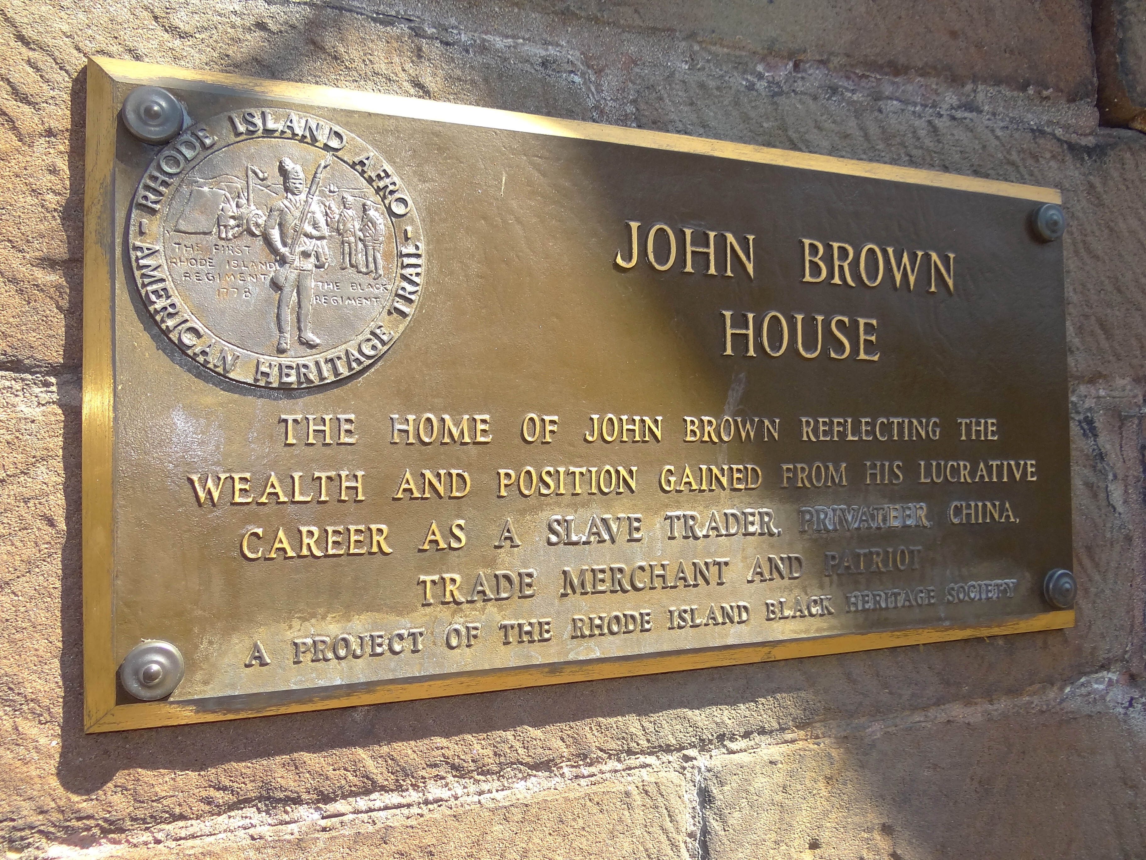 Plaque outside John Brown House - Showing Alterations to Reflect His Slave-Trading - Providence - RI - USA